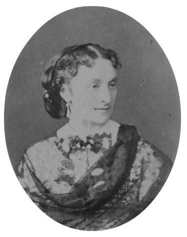 Татьяна Дмитриевна Строганова, ур. Васильчикова (19.03.1823—16.10.1880)